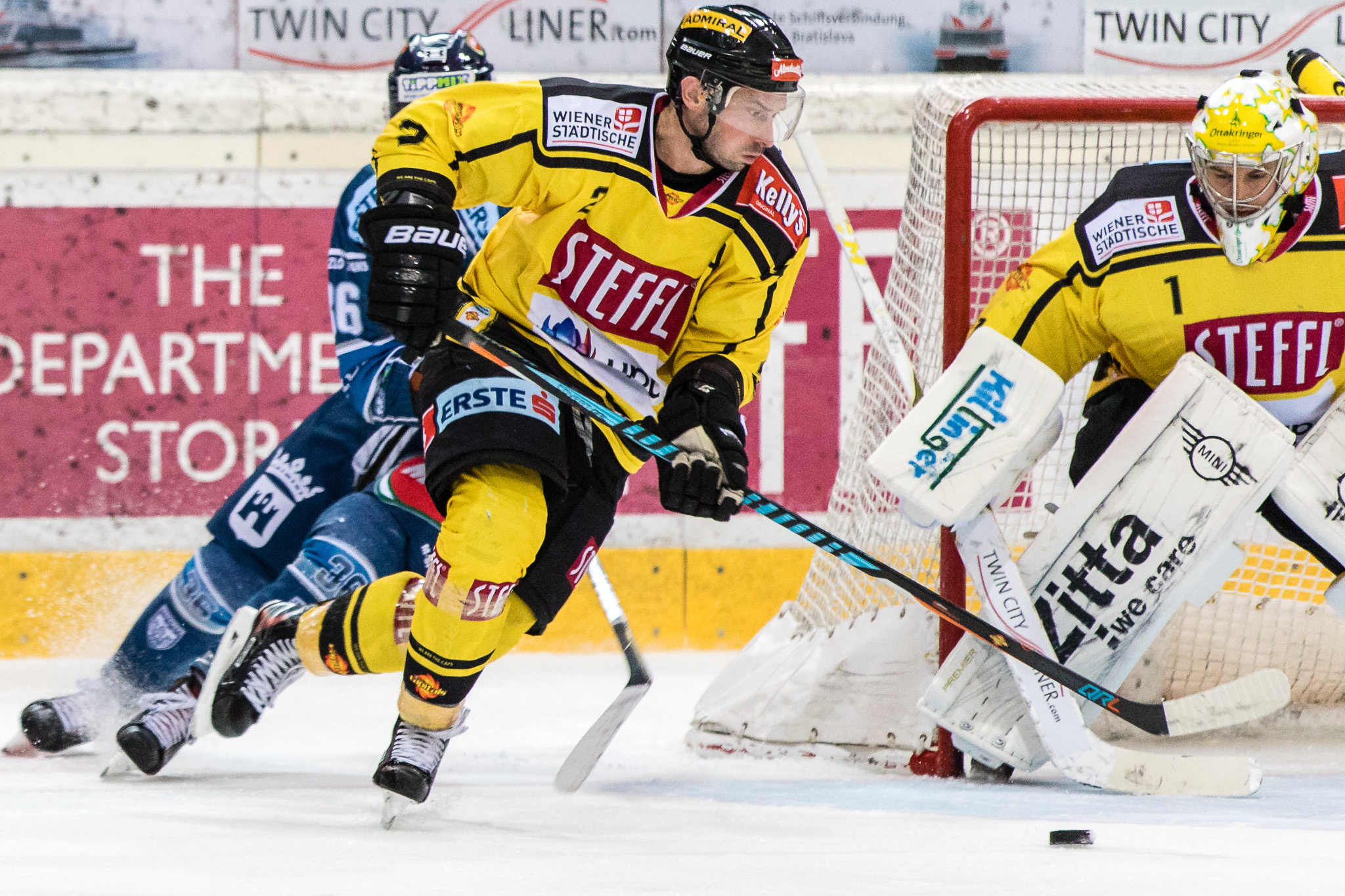 2017-11-17 Vienna Capitals vs Fehervar AV19